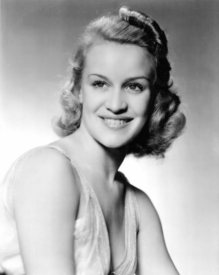 Photo of Joan Banks.